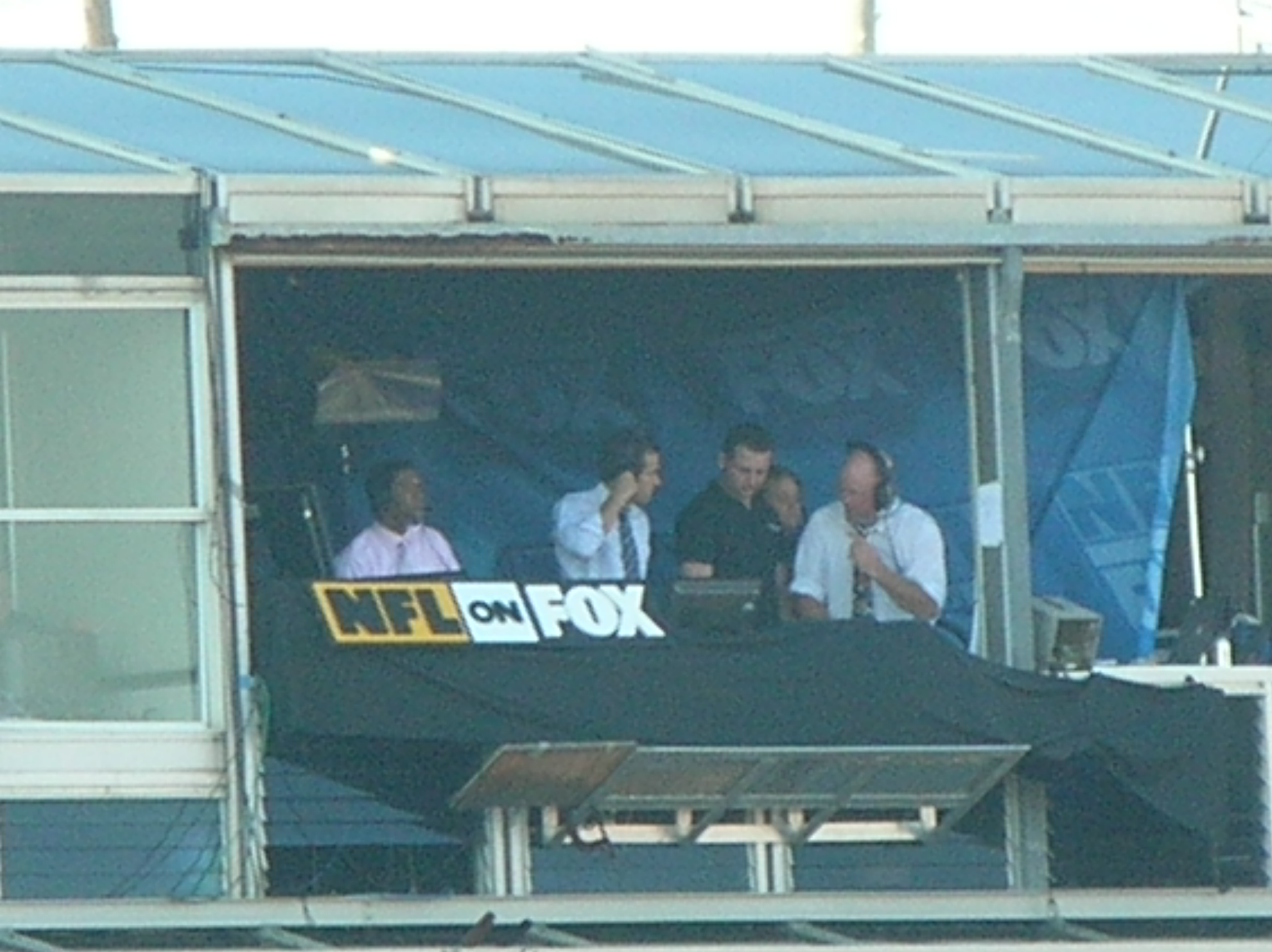 The NFL on Fox Booth at Candlestick Park as seen from Upper Reserved Section 13 during a game between the San Francisco 49ers and St. Louis Rams. The 49ers won 35-16.